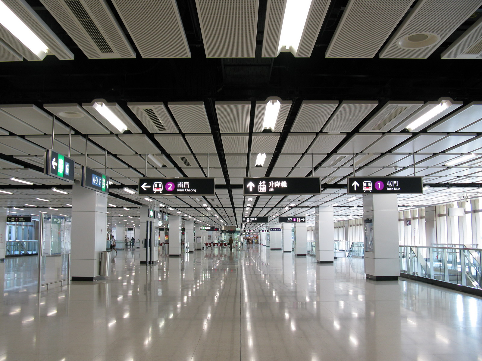 West Rail Line Concourse of Mei Foo Station